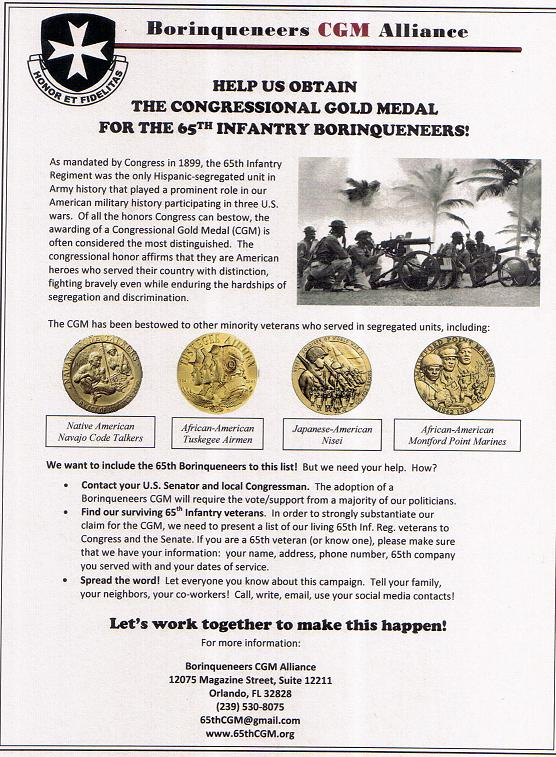 A "Borinqueneers CGM Alliance flyer which promtes the award of the Congressional Gold Medal for Puerto Rico's 65 Infantry Regiment.